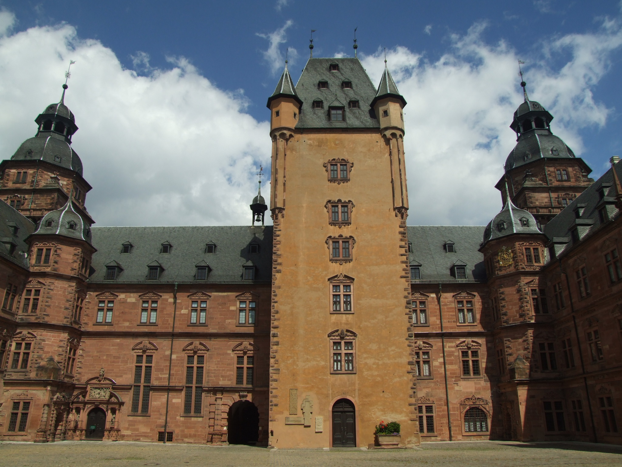 Schloss Johannisburg, a castle in Aschaffenburg, Germany, inner yard with keep